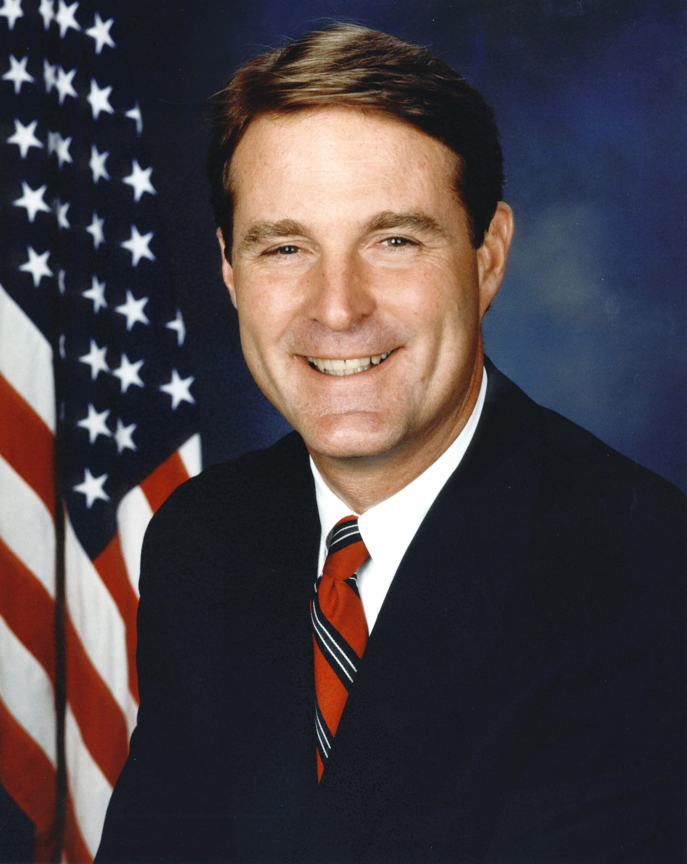 U.S. Senator Evan Bayh of Indiana.